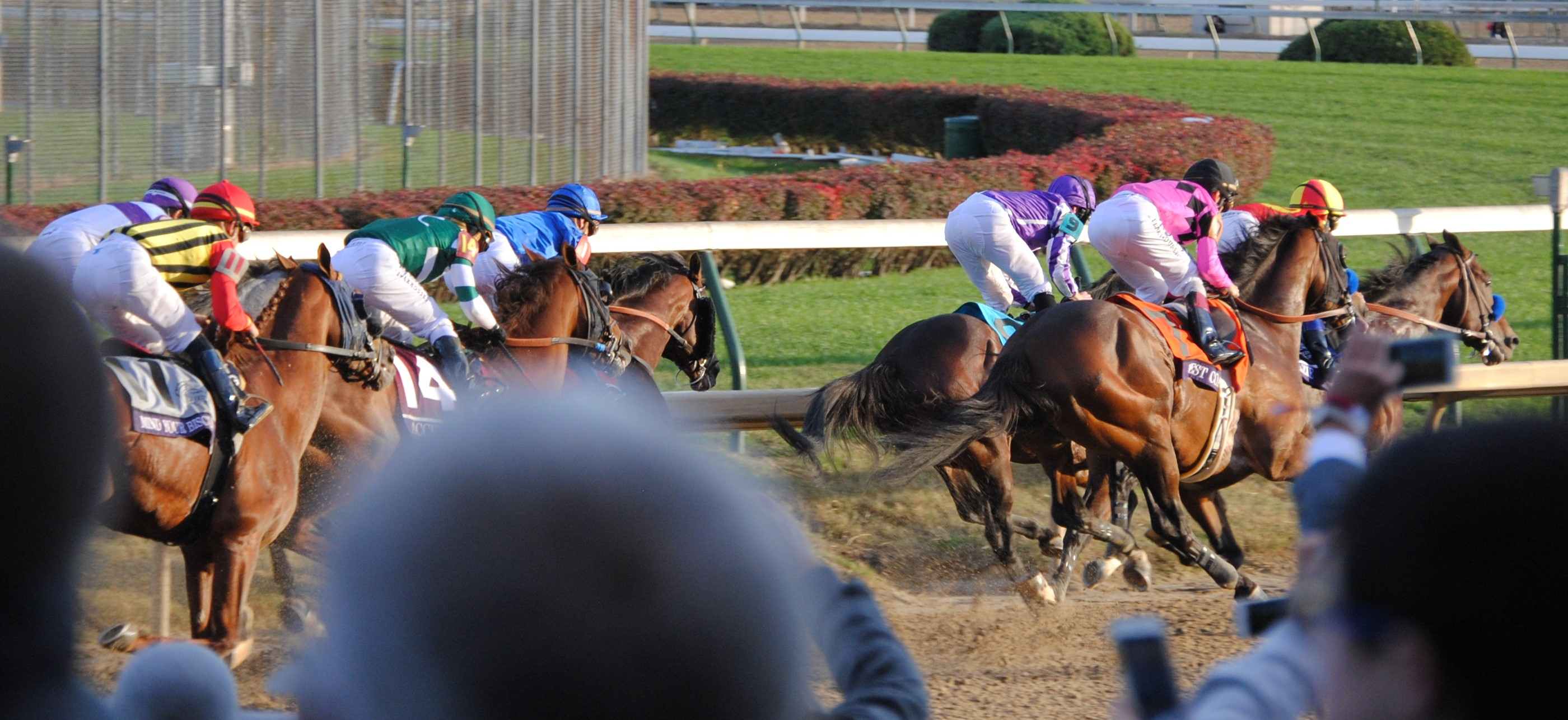 Going into the first turn of the 2018 Breeders' Cup Classic. Eventual winner Accelerate (#14) lies in fifth place.